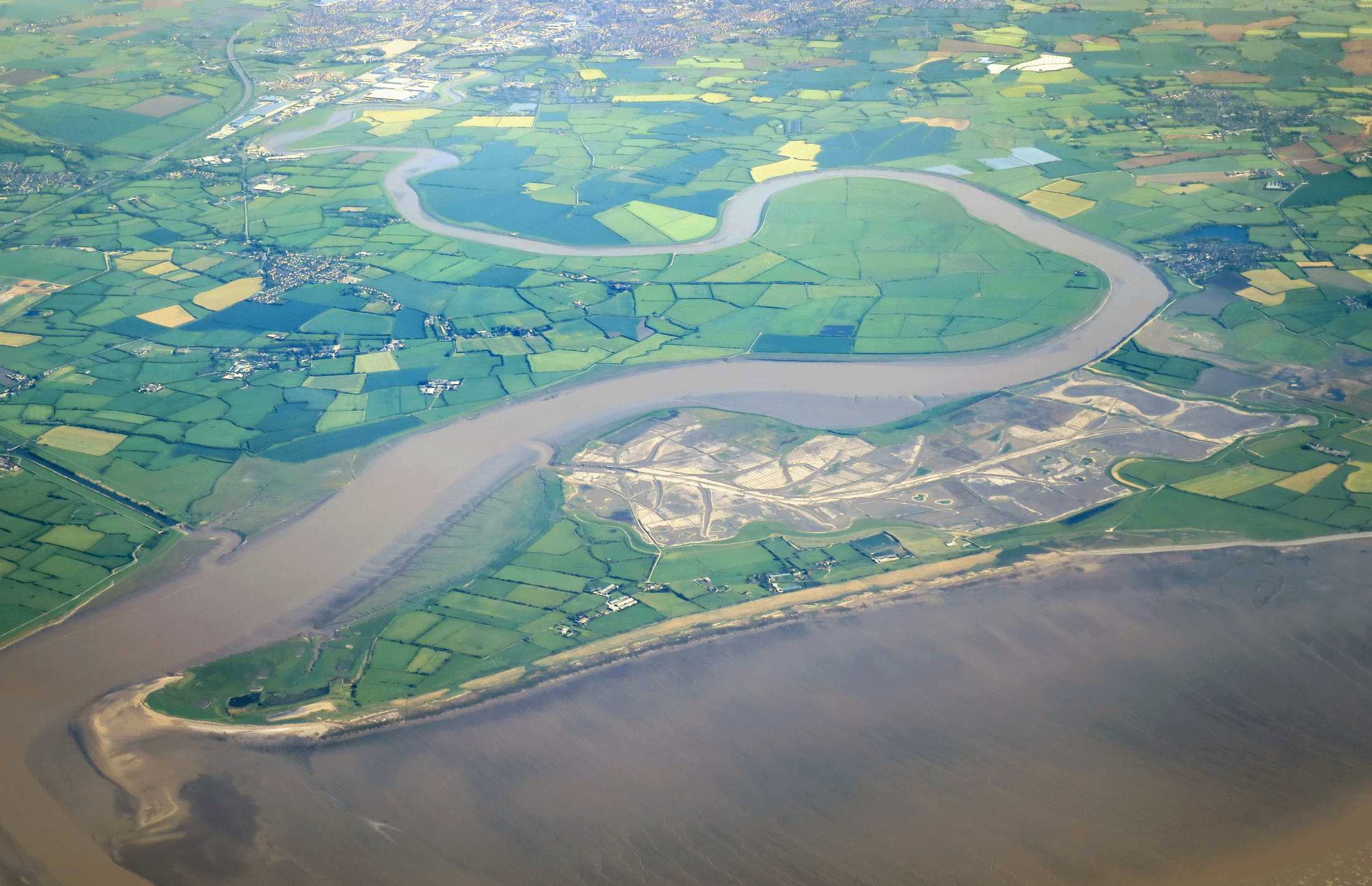 Aerial view of the Steart peninsula and the mouth of the river Parrett.